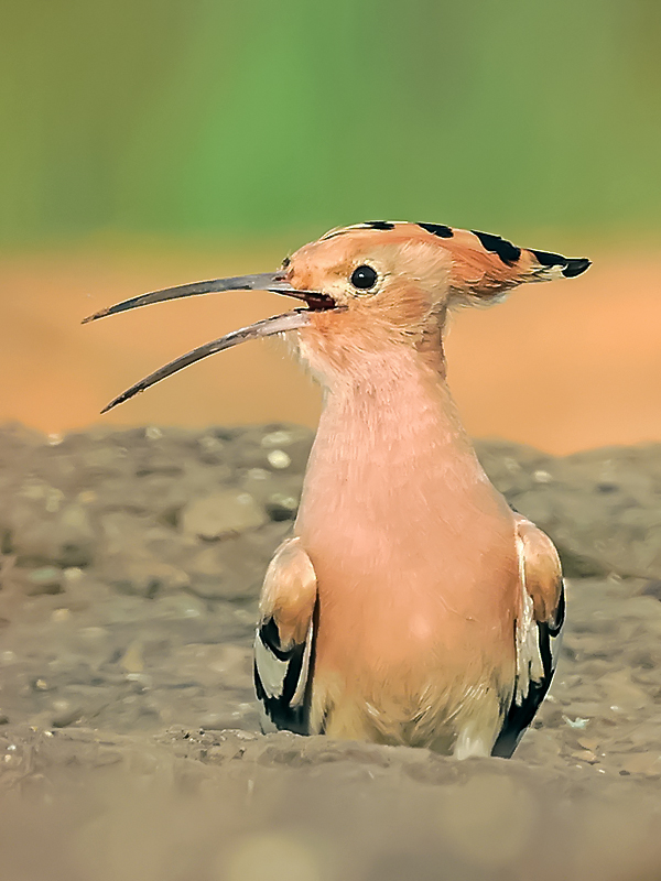 Common Hoopoe (Upupa epops) from Mangaon, Raigad, Maharashtra, India. Photograph by Shantanu Kuveskar.